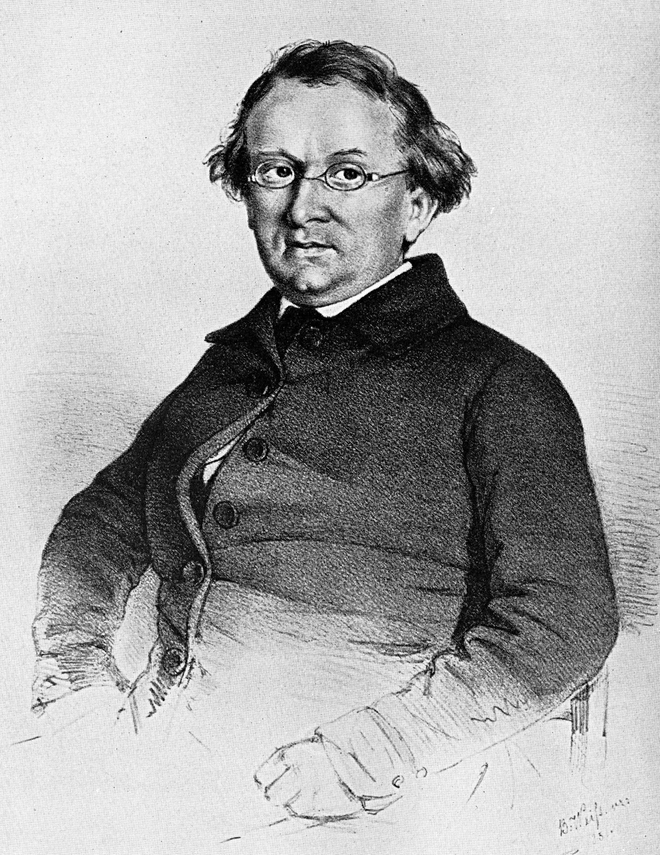 Eduard Moerike (1804–1875), poet.